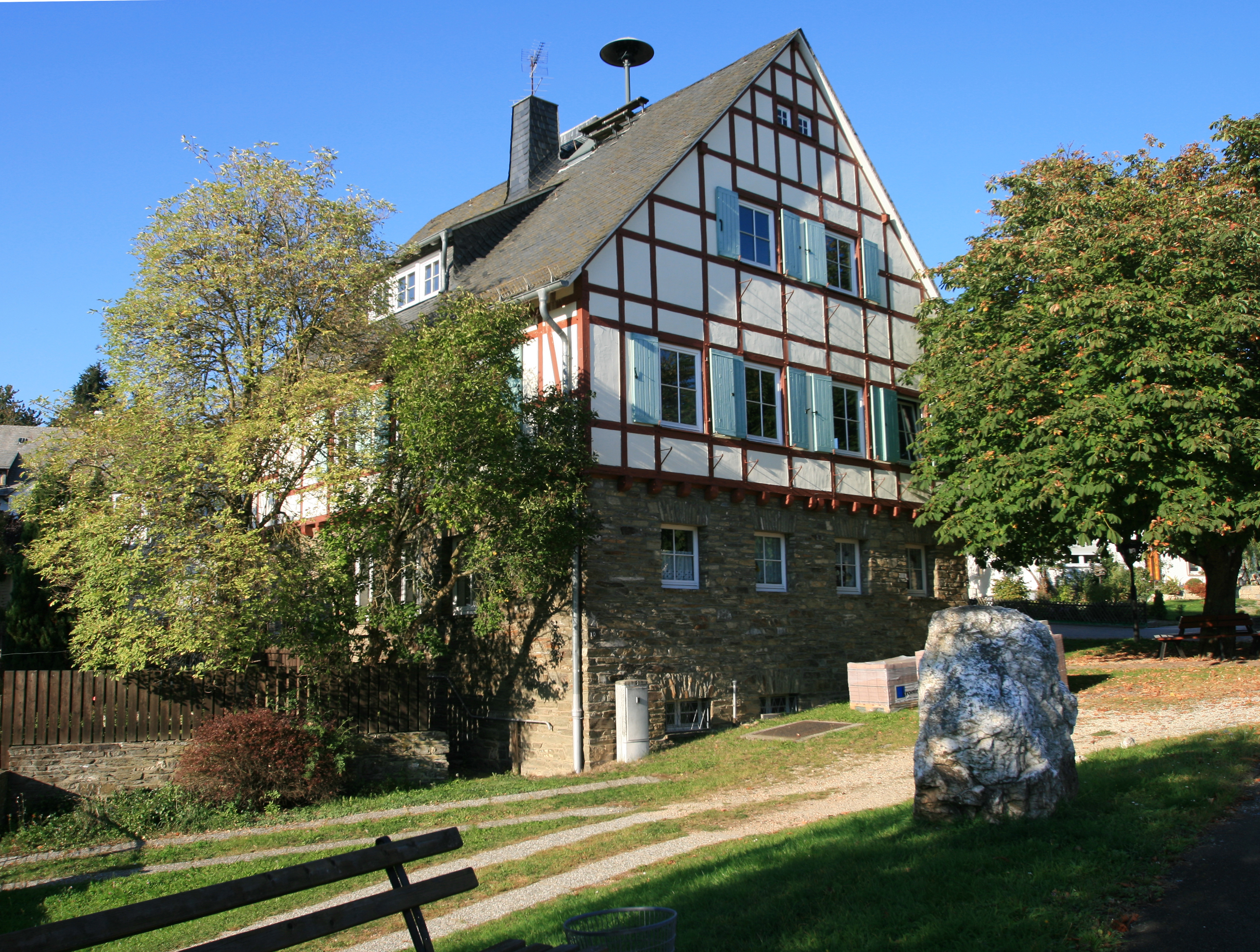 Espenschied, Lorch, Germany